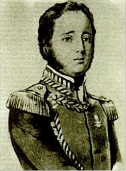 Portrait of Gregor MacGregor